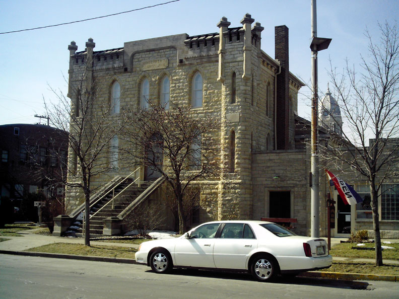 Front and side of the Kosciusko County Jail, located at the intersection of Main and Indiana Streets in Warsaw, Indiana, United States. Built in 1870, it is listed on the National Register of Historic Places, and it is part of a Register-listed historic district, the Warsaw Courthouse Square Historic District.